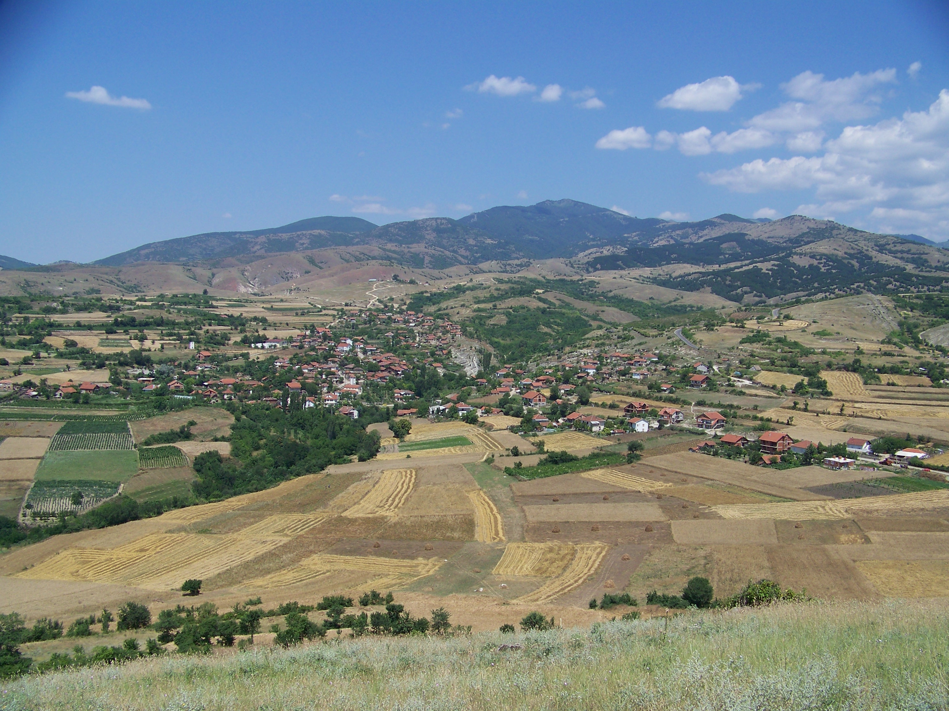 Village of Beli, Kocnai, Republic of Macedonia